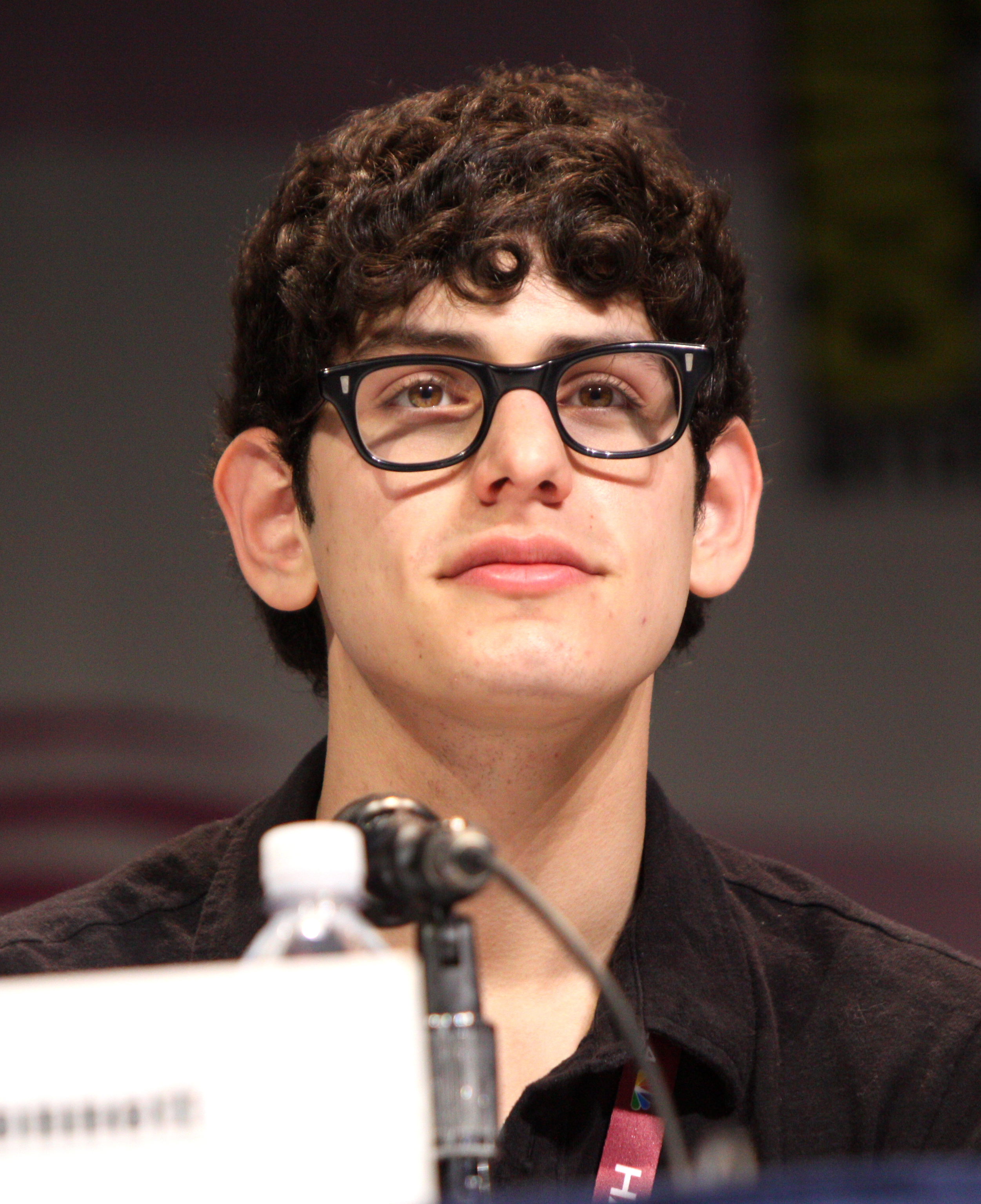 Matt Bennett speaking at the 2013 WonderCon in Anaheim, California on March 30, 2013.